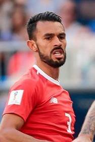 Aleksandar Mitrović, Giancarlo González